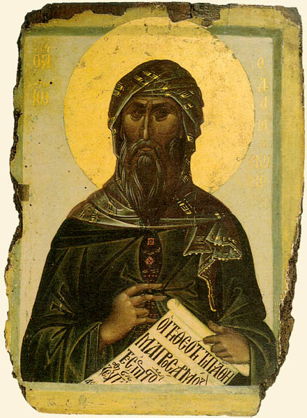 John of Damascus. Icon from Athos, dated to the beginning of 14th century